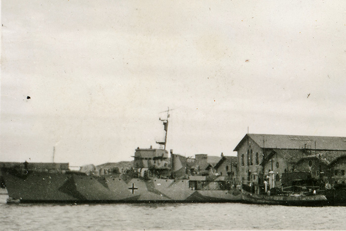 GER UJ 205 (ex Colubrina) Venezia 1943 MM MG